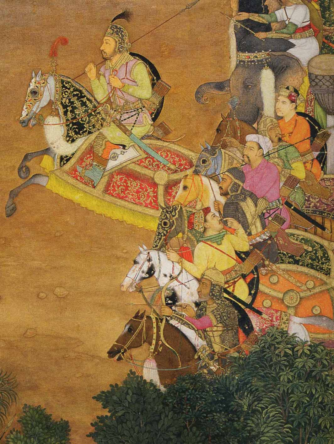 The Padshahnama (Persian: پا د شاه نا مہ) (Chronicle of the Emperor) is a genre of works written as the official visual history of Mughal Emperor, Shah Jahan’s reign. Most significant work of this genre was written by Abdul Hamid Lahori in two volumes.[2]